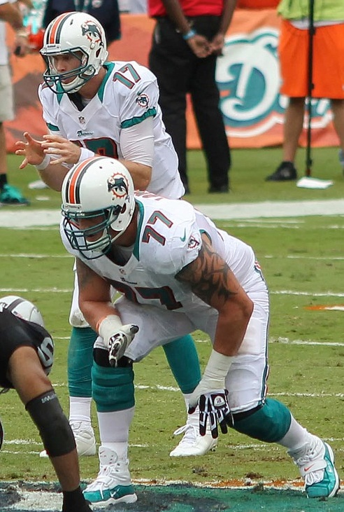 Quarterback Ryan Tannehill of the Miami Dolphins